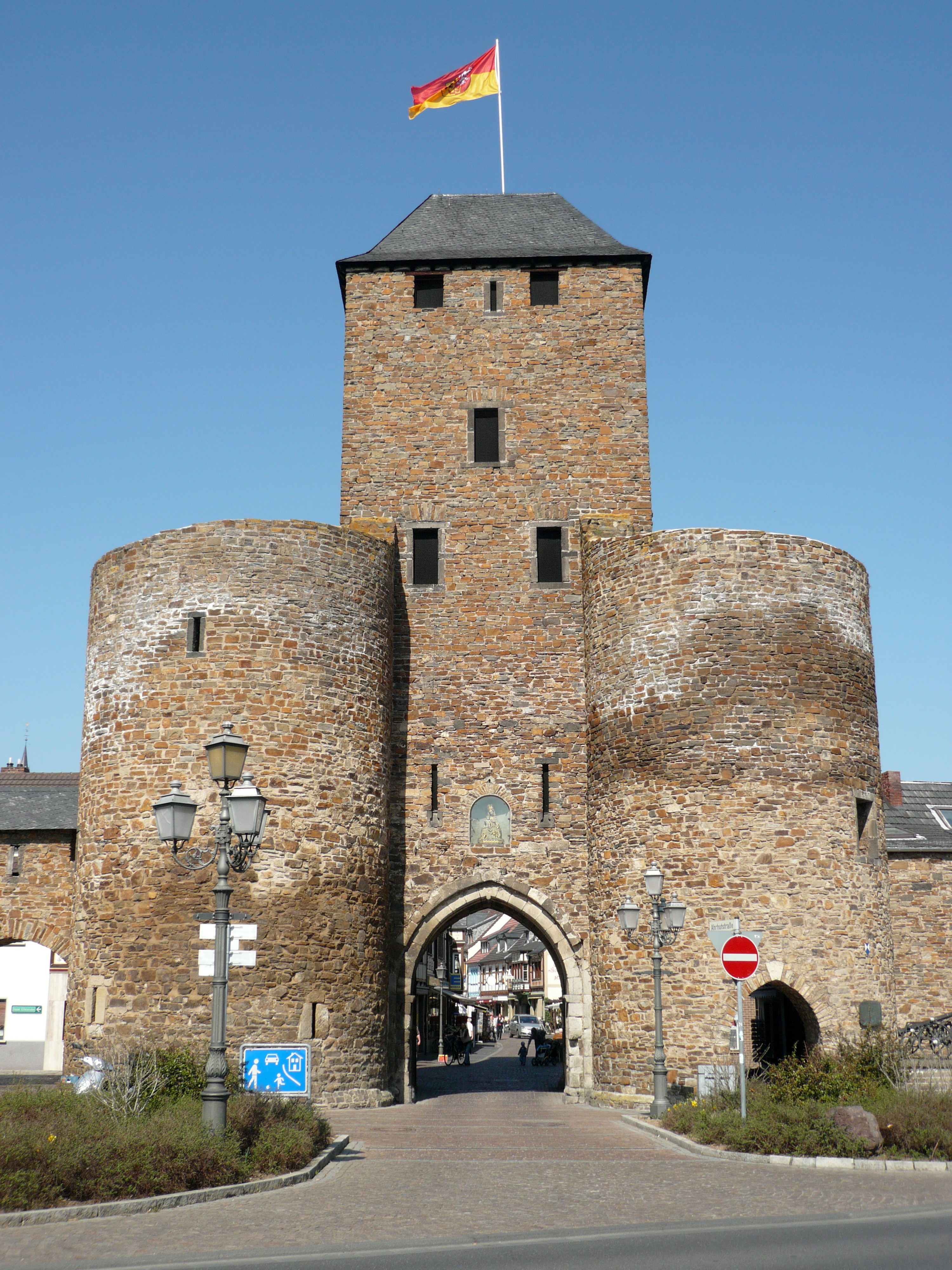 Ahrtor at Ahrweiler